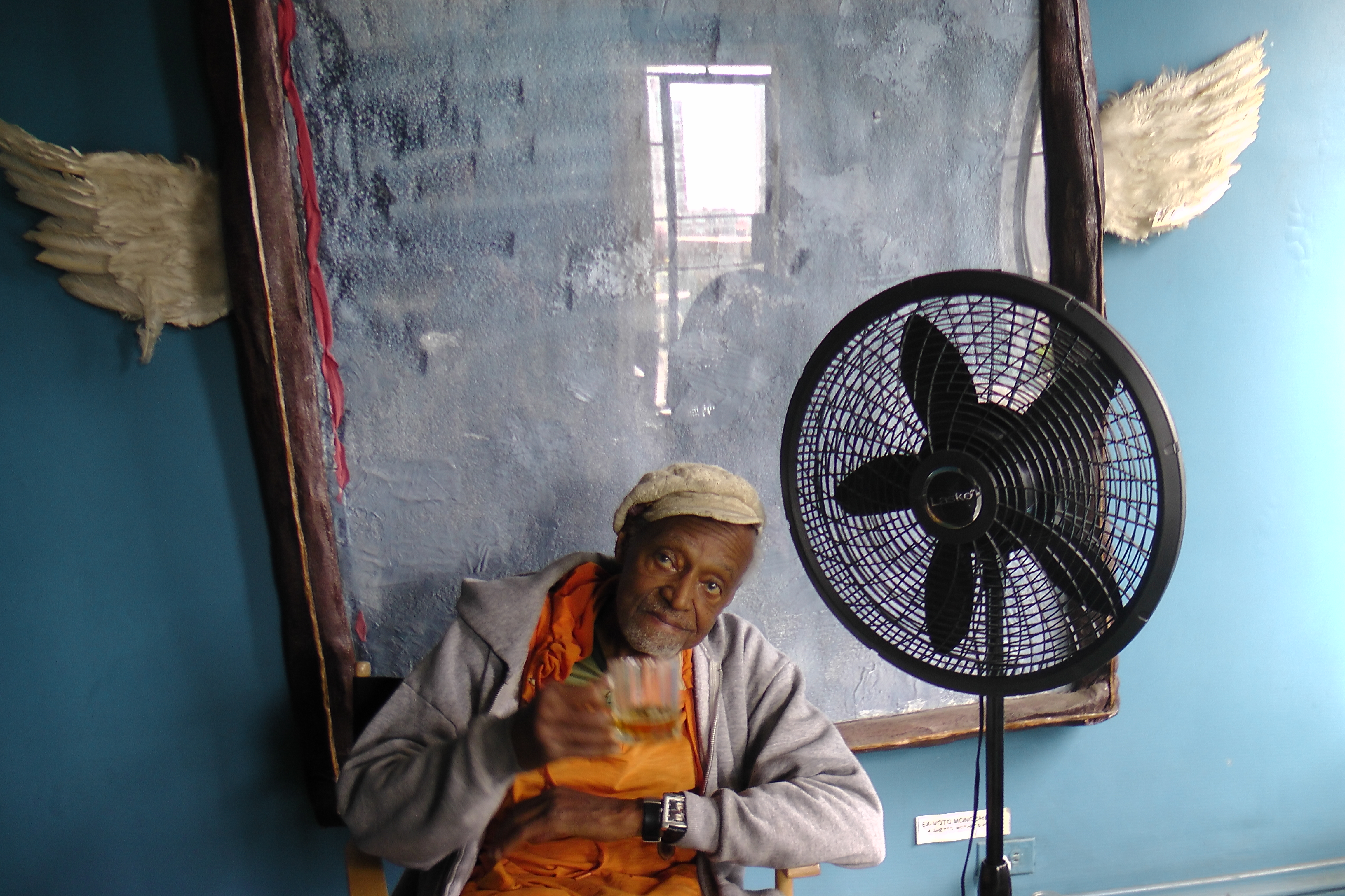 Melvin Van Peebles, posing with his biggest fan, in front of his artwork, A Ghetto Mother's Prayer